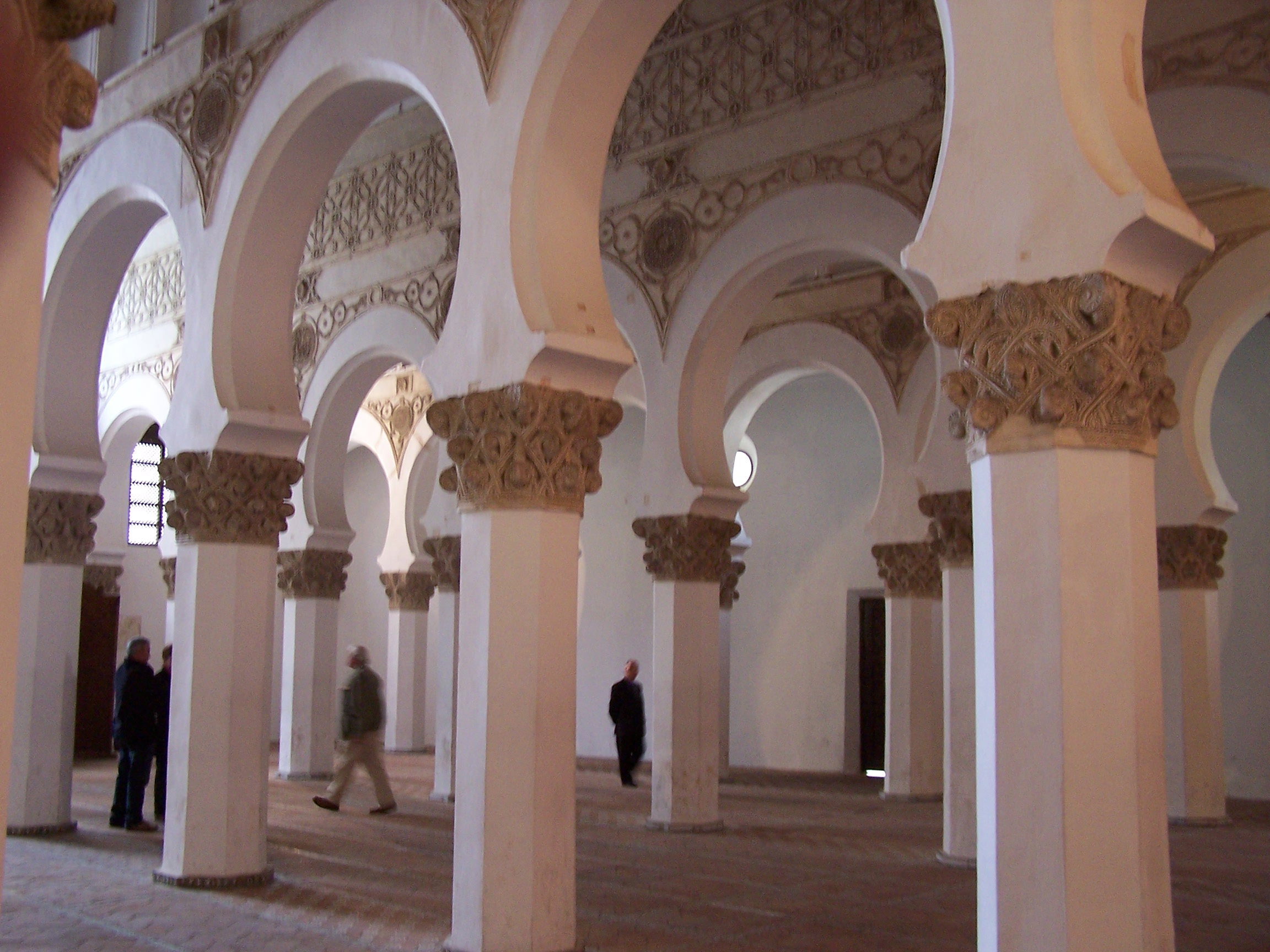 Nave and columns of the Toledo synagogue, anmed Sinagoga del Transito, built 1356 for a private individual, Spain, ZM